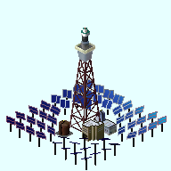 Solar Termal tower plant simutrans addon